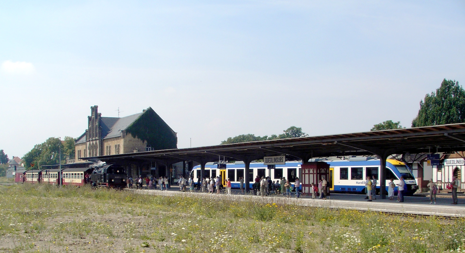 traffic junction of Quedlinburgs railway station